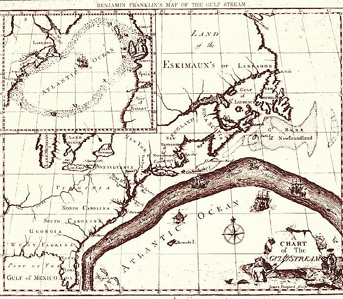 Map of the Gulf Stream by Benjamin Franklin. Courtesy of NOAA Photo Library.